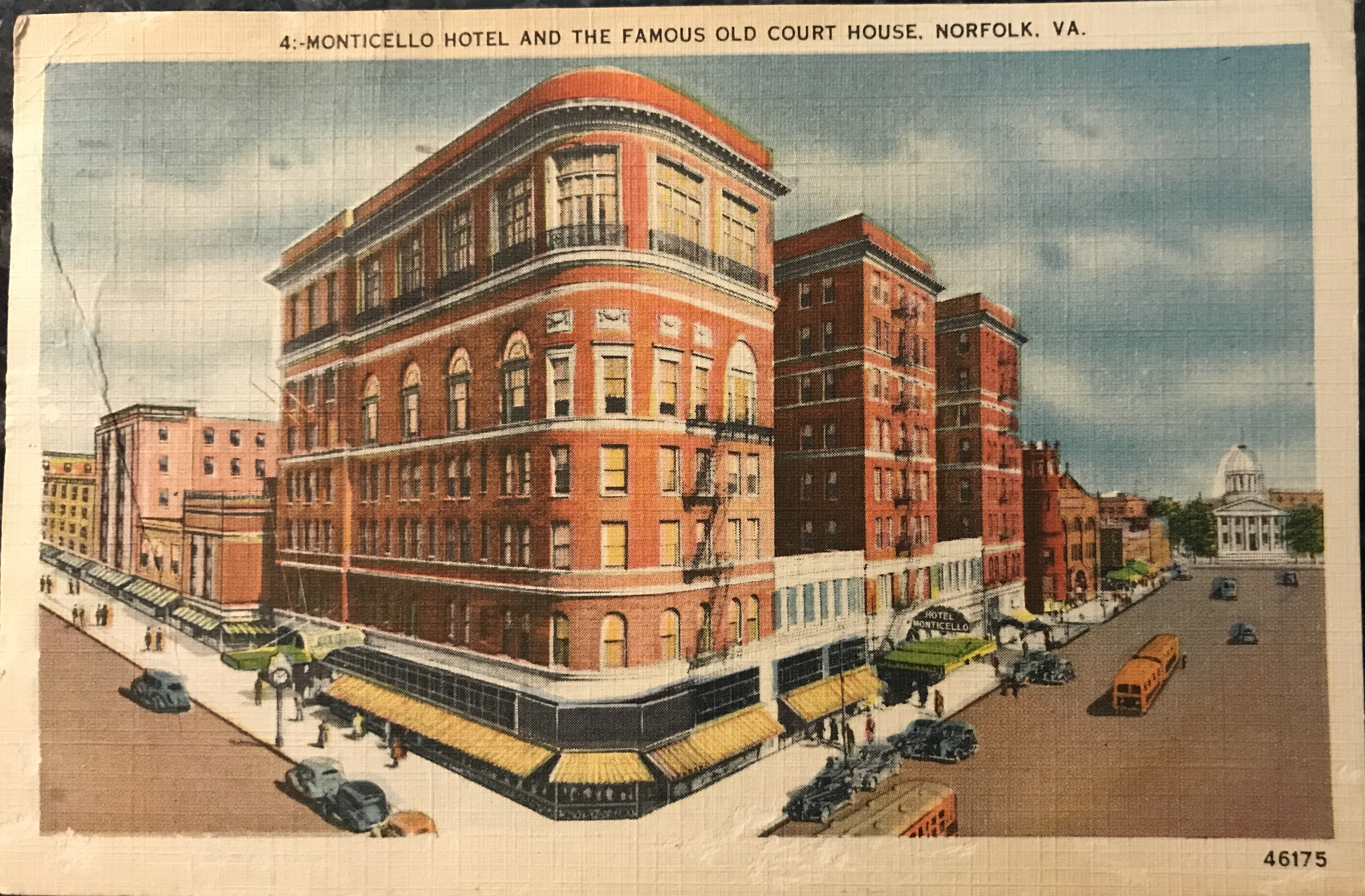 Rebuilt Monticello Hotel, Hampton, Virginia USA after the 1918 fire